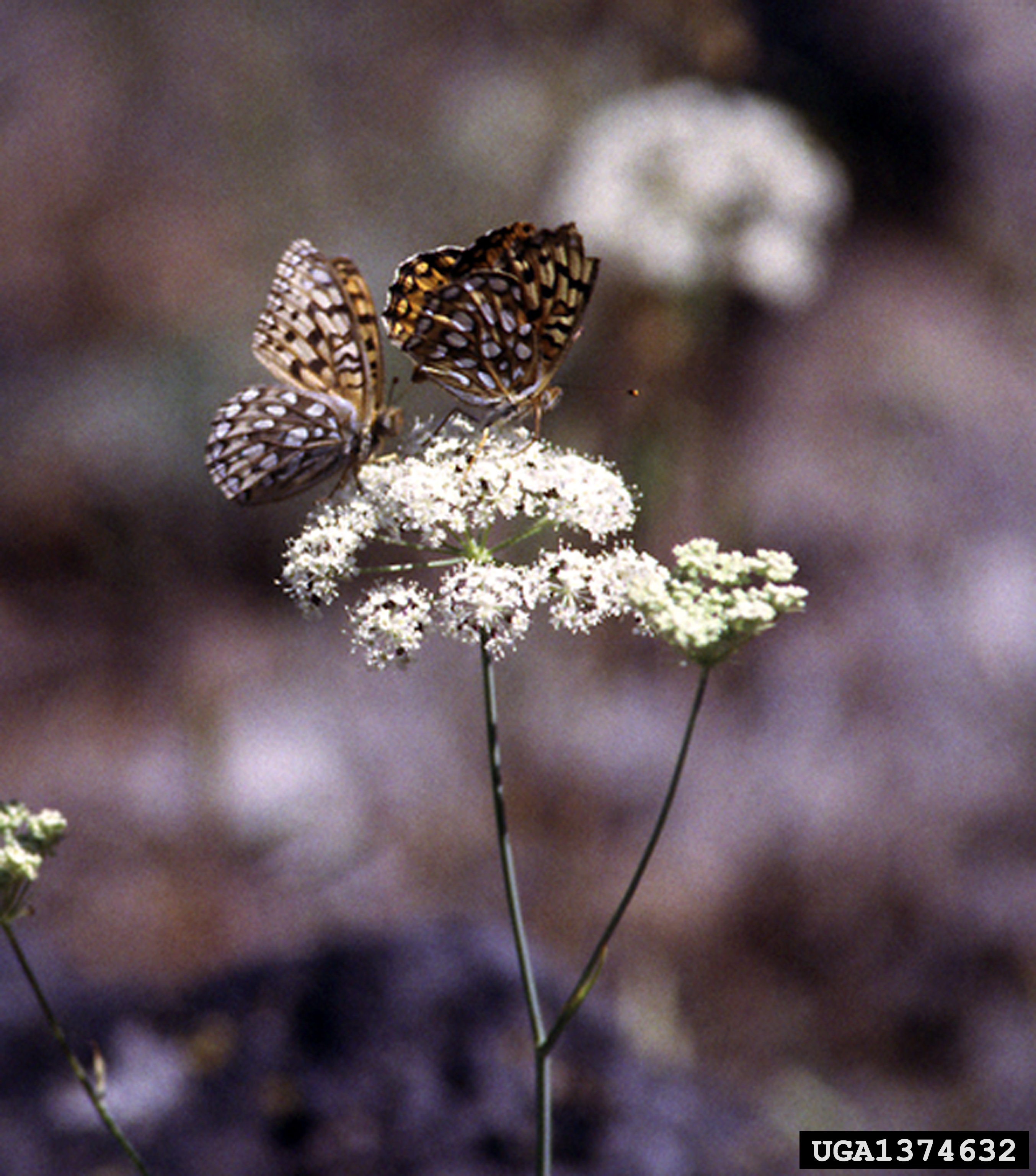 Perideridia oregana with unknown sp. butterflies